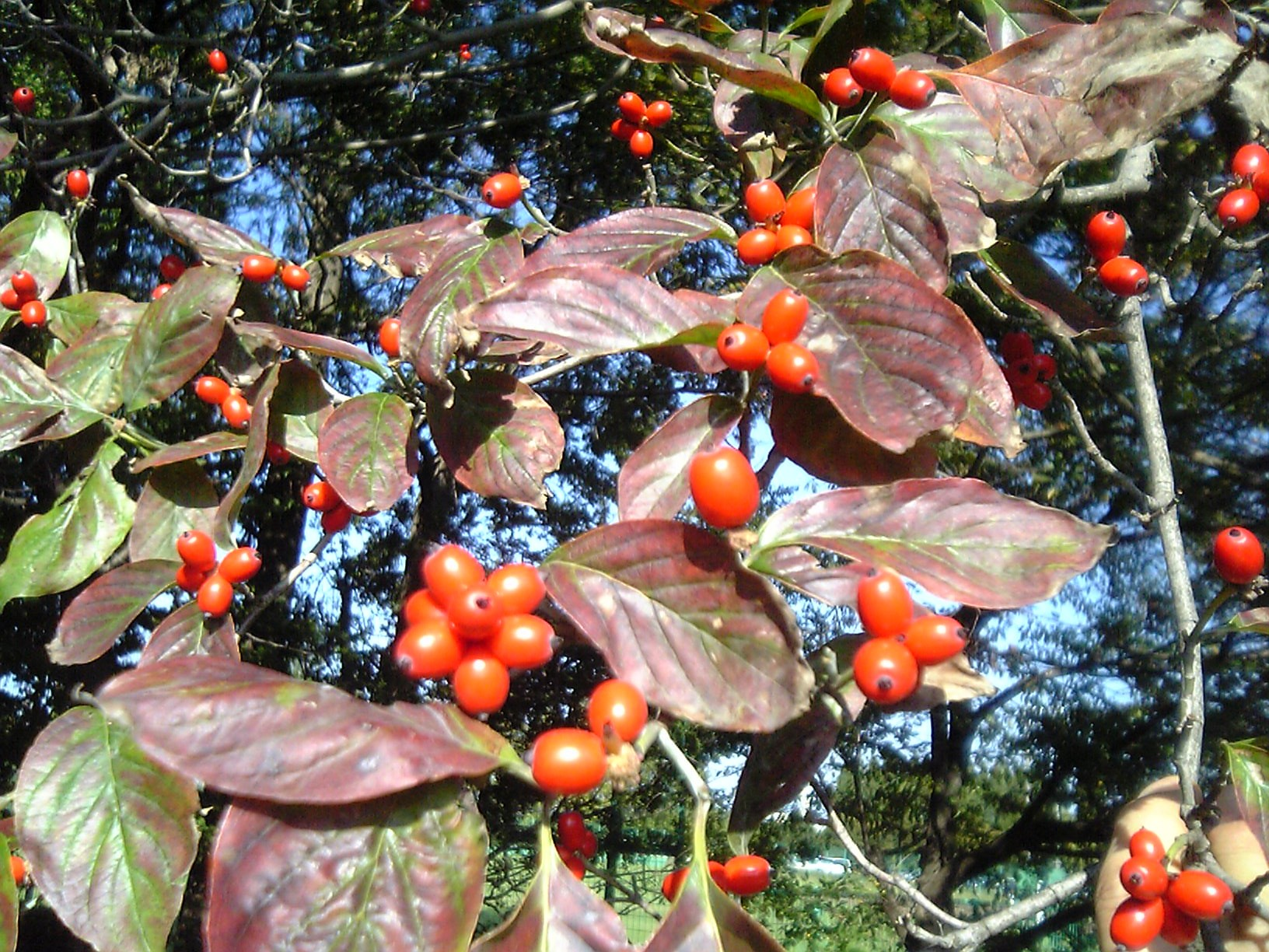 That it seems that the tree shape of Flowering Dogwood of autumn is red, berries. As for the leaf, autumn colors have begun. See also. Tree shape, Autumn, Berries